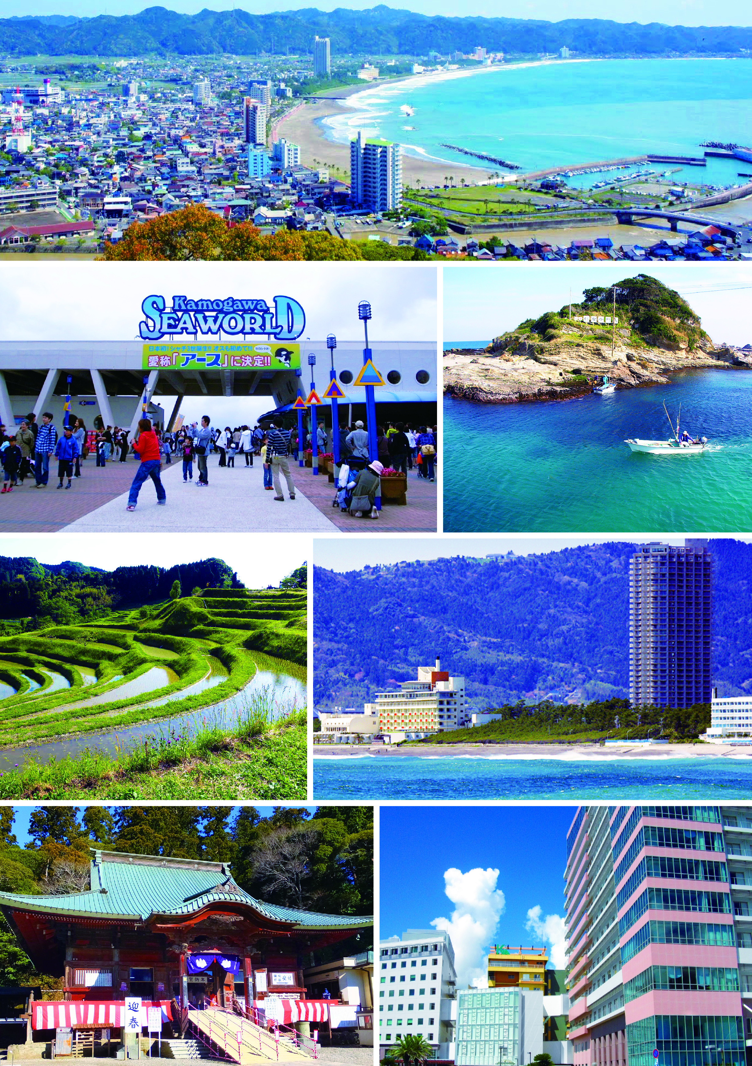 Kamogawa Montage.jpg